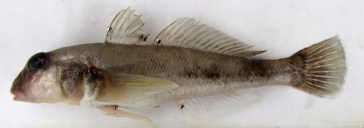 Caspian goby (Neogobius caspius) from the Caspian Sea near Bandar-e Anzali, Iran